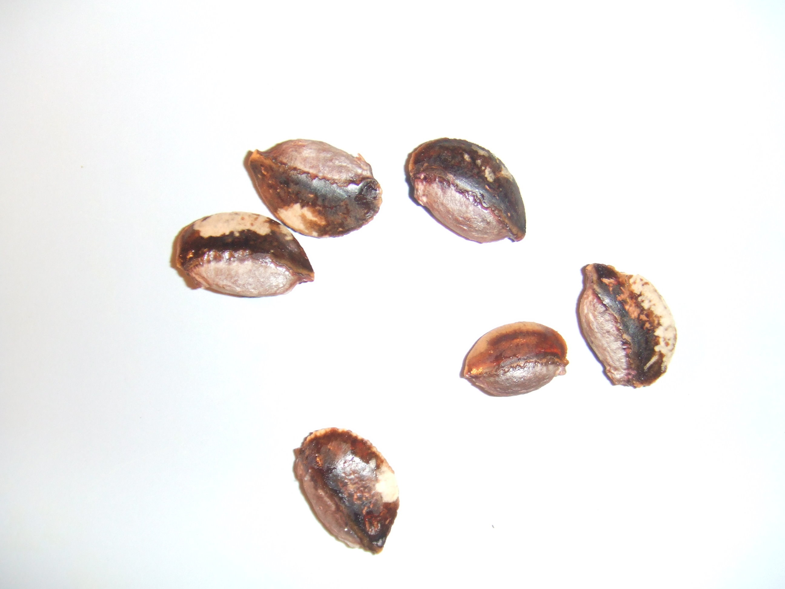 Seads of Chrysophyllum cainito, left after I have eaten the flesh of the cainito.